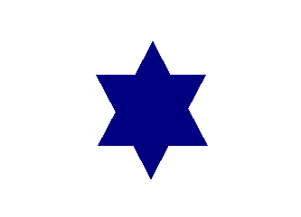 VIII Corps, Middle Department, 3rd Division Badge